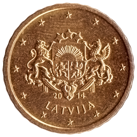 Latvian euro cent coin featuring Coat of arms of Latvia